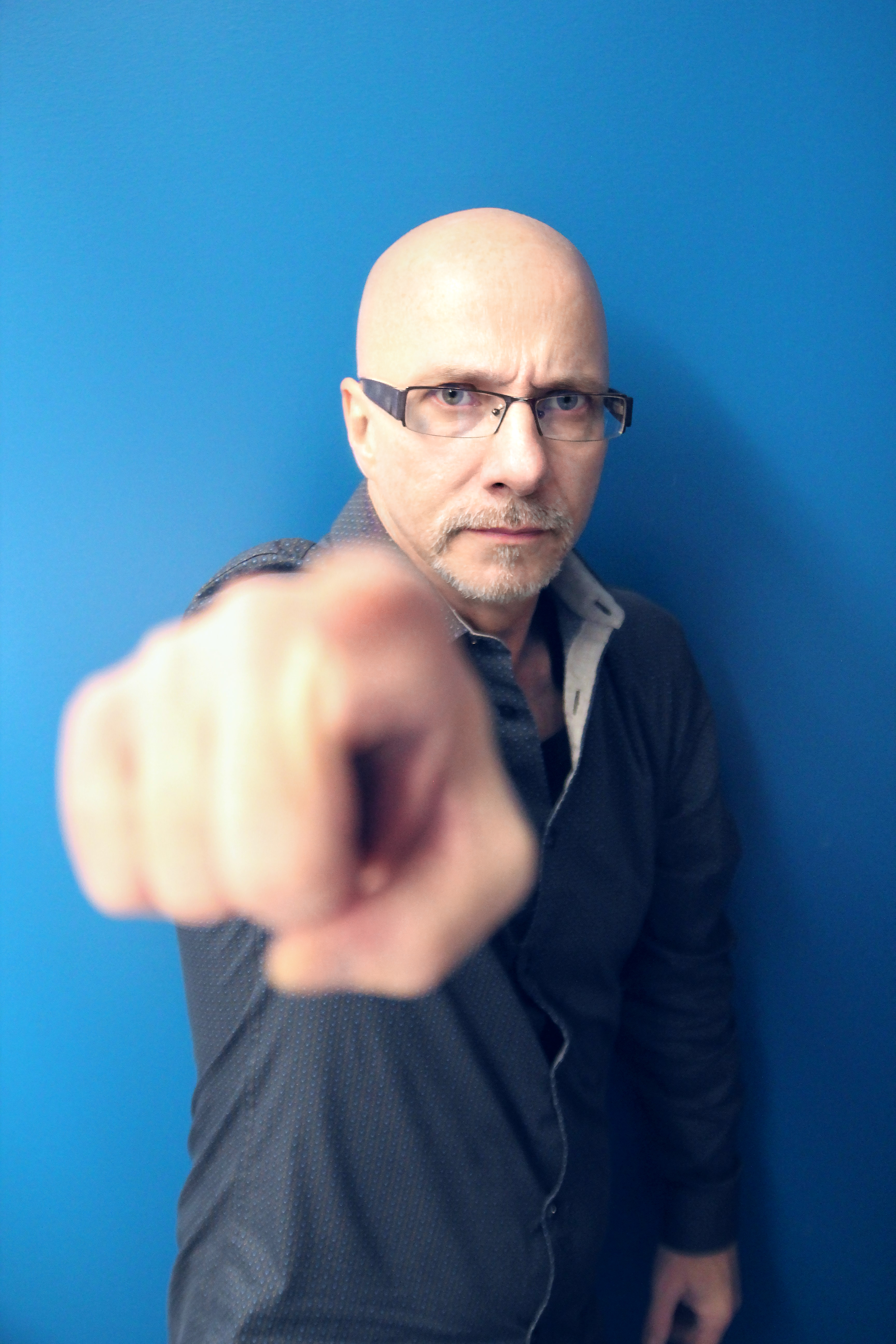 Taken at LogiCalLA